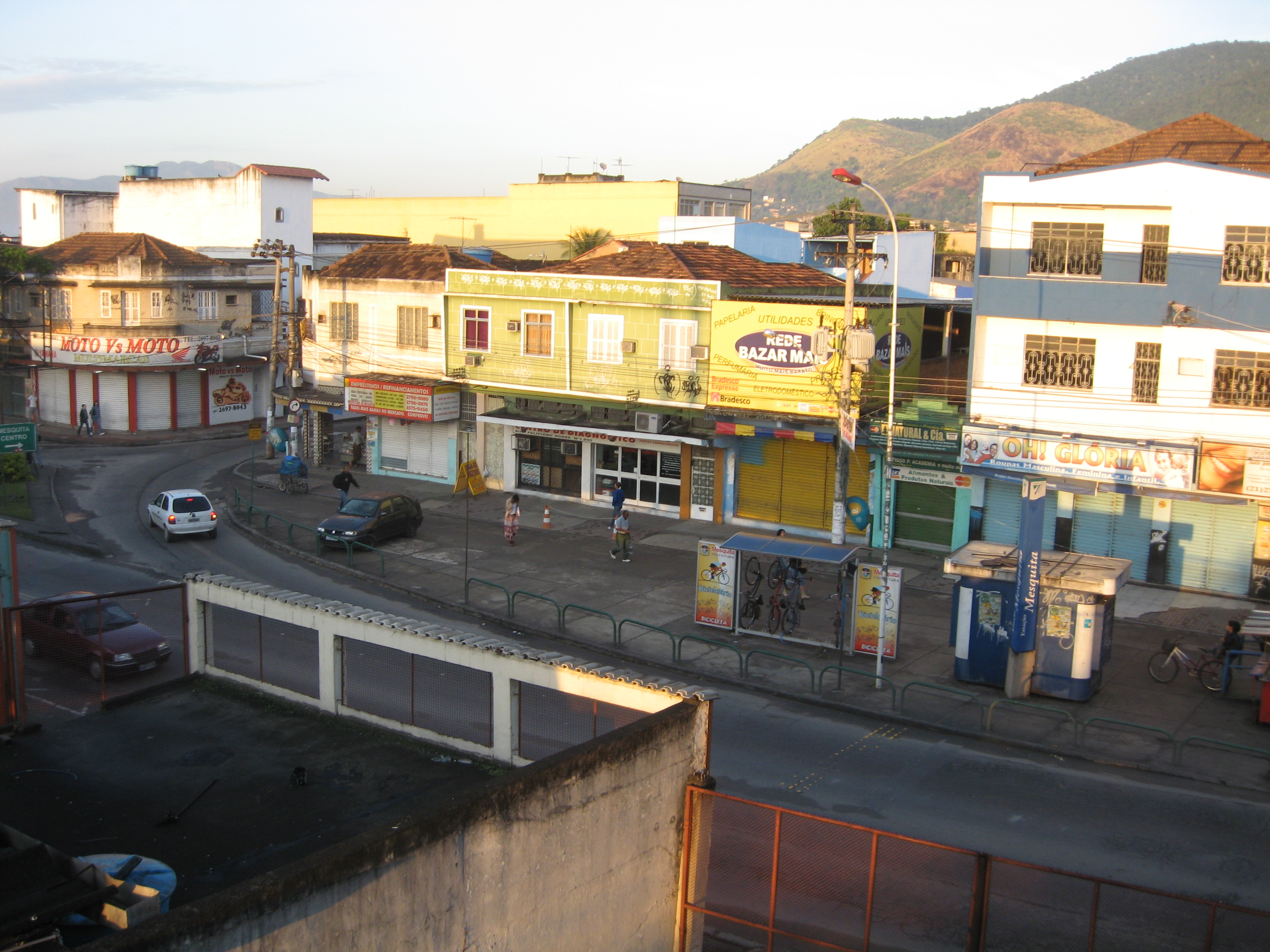 View of downtown Mesquita, Rio de Janeiro, Brazil.